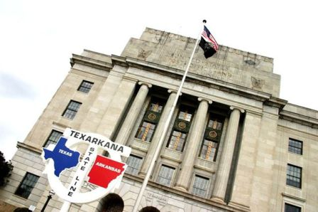 Photo of the post office on state line in Texarkana TX/AR. The post office is the most famous sight of the twin cities.